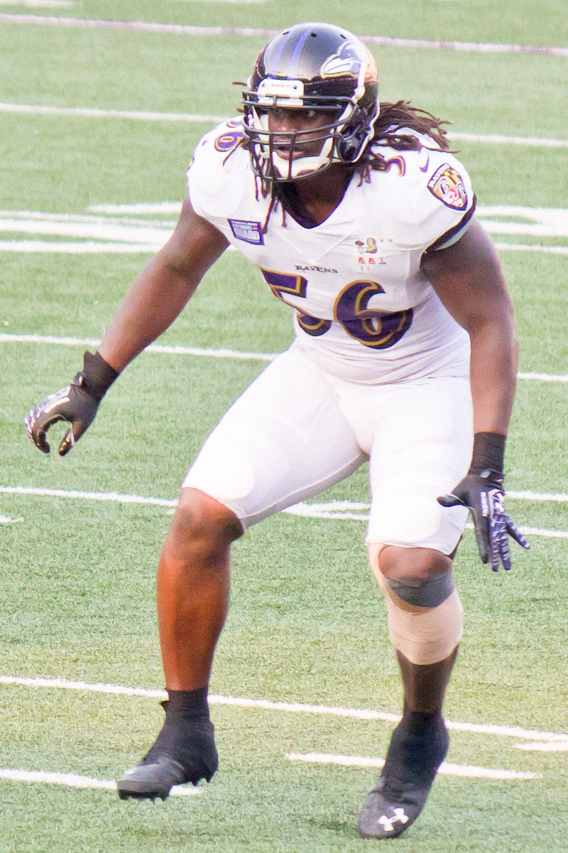 Josh Bynes at Ravens Stadium Practice Aug 2013